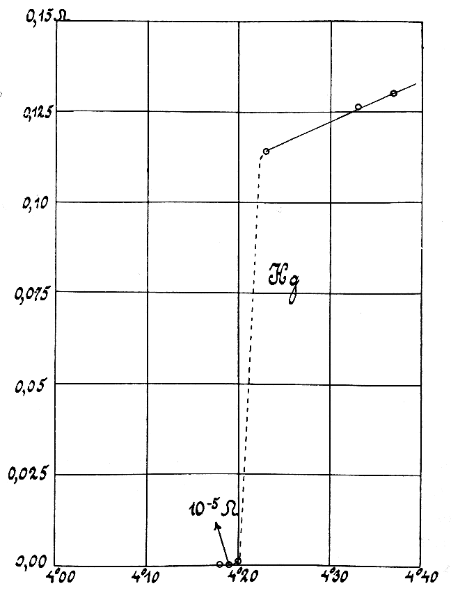 The first measurements on superconductivity: the resistivity of a capillary of mercury as a function of temperature.